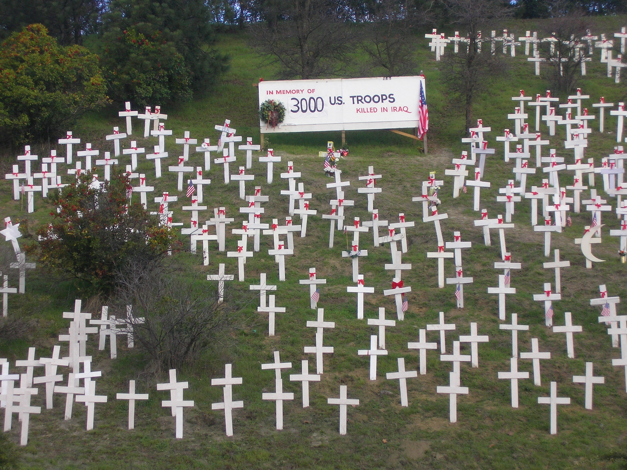 The Lafayette hillside memorial in Lafayette, California, United States. Photographed on January 3, 2007.